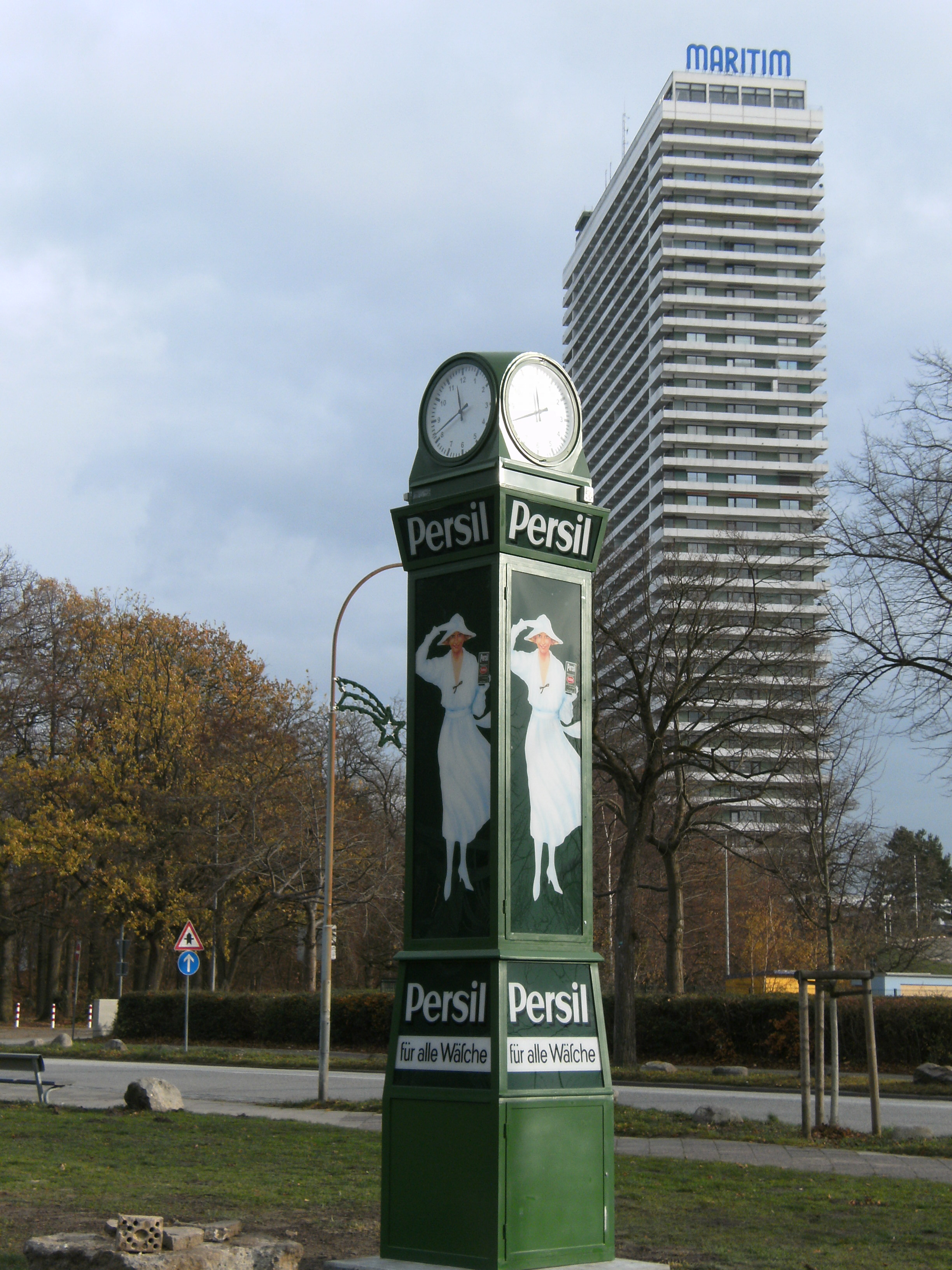 Persil clock in Travemünde, Germany, Dr Heinrich-Zippel-Park (park) with hotel Maritim.